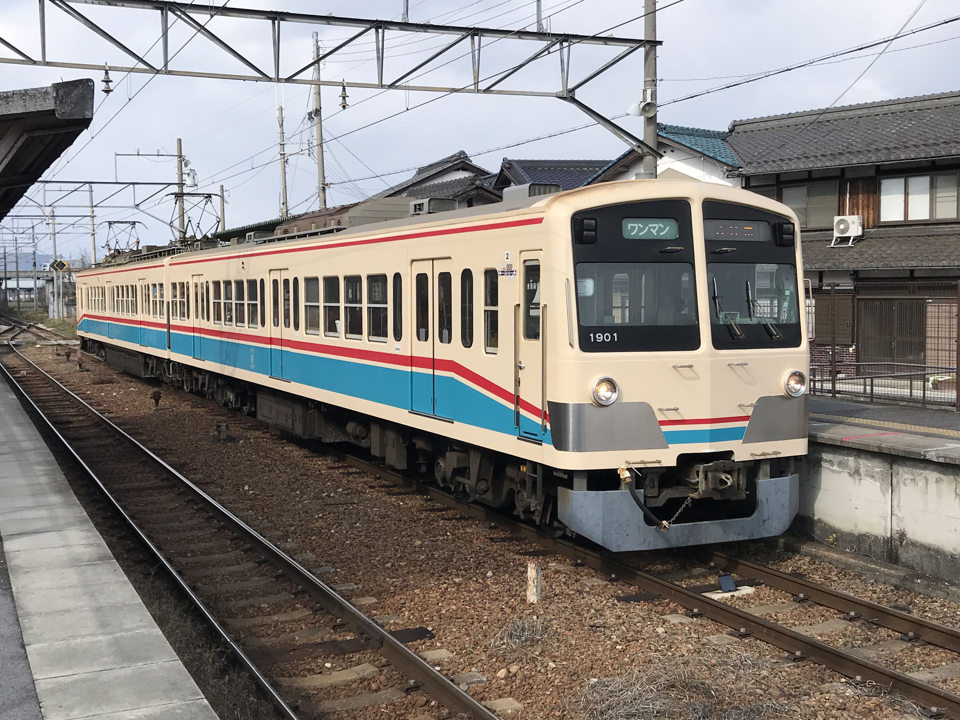 Ohmi Railway type 900 Akane approaching Musa station